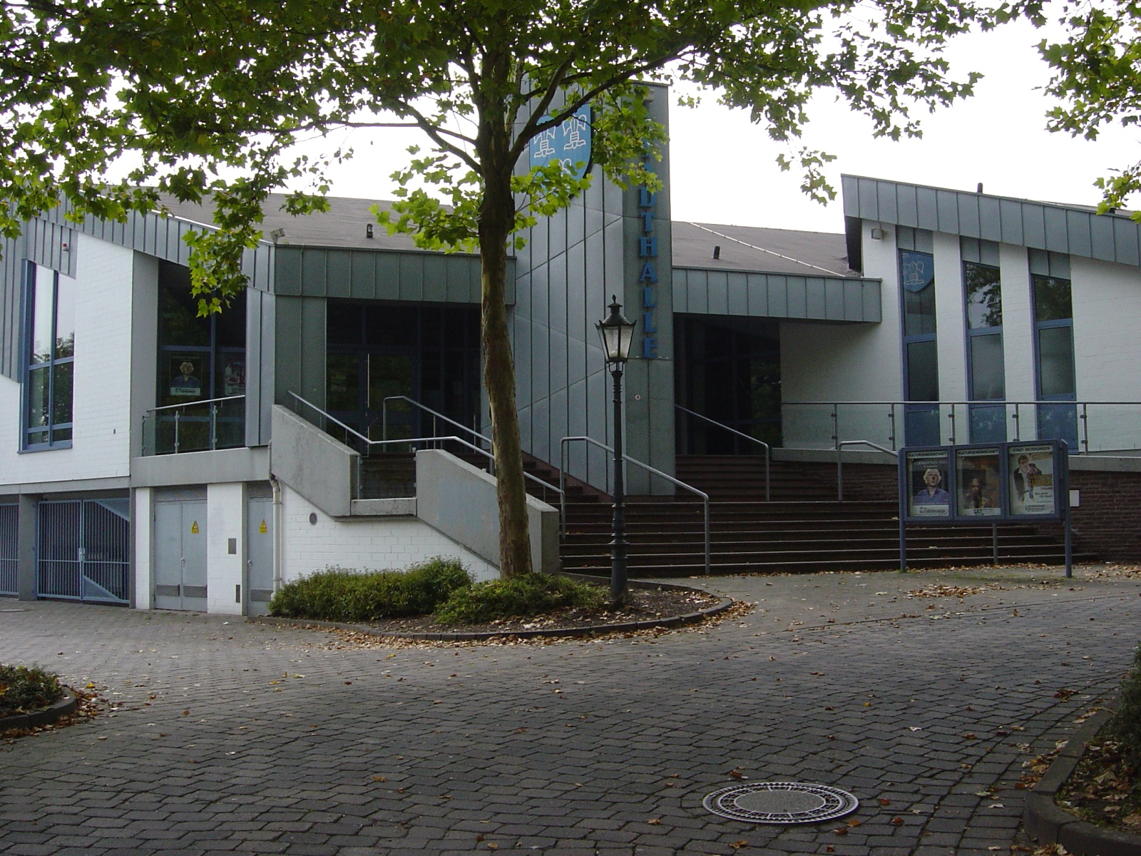 Civic center Beverungen (Germany)